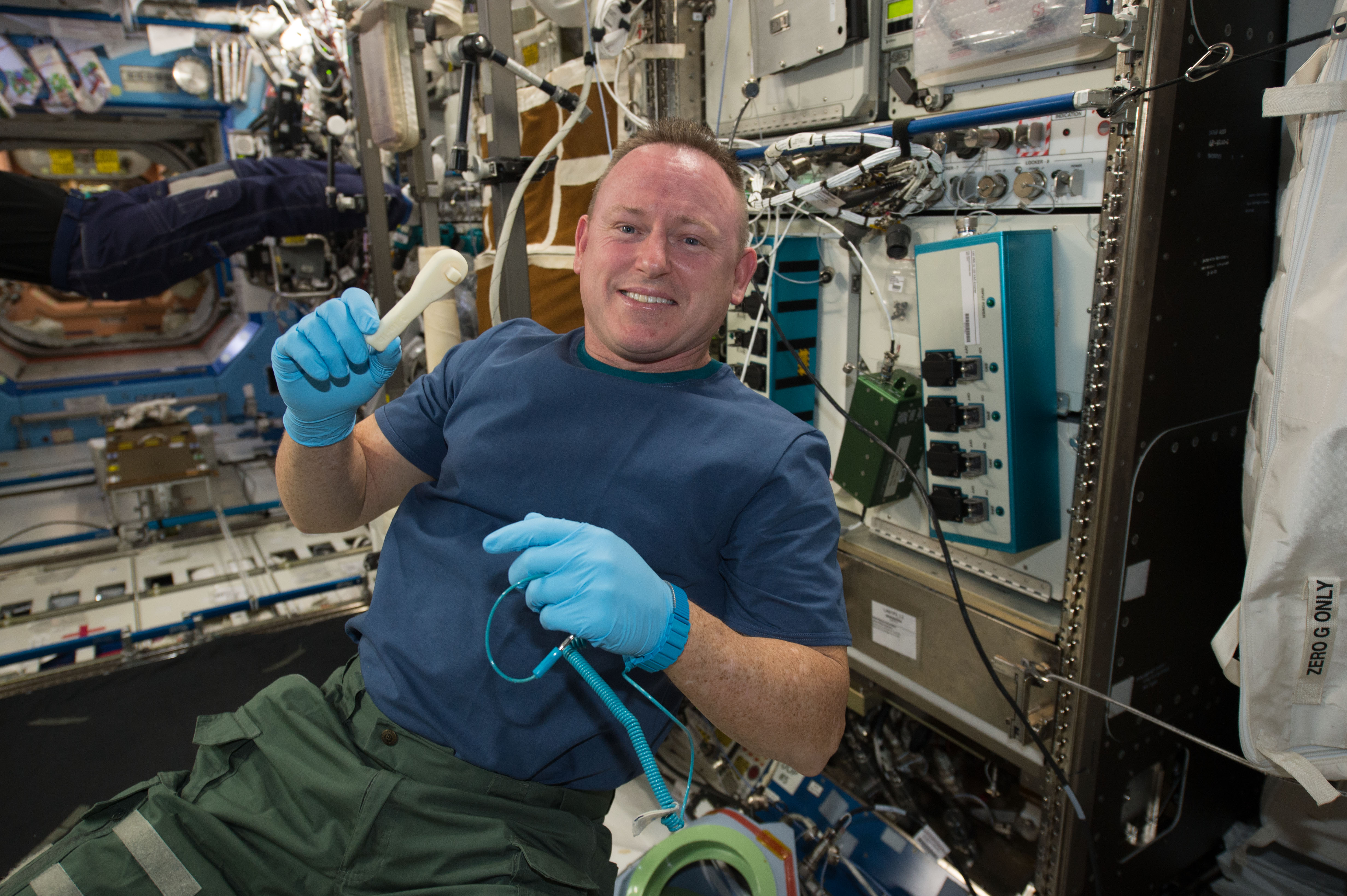 NASA Astronaut Barry (Butch) Wilmore holds a 3-D printed ratchet wrench from the new 3-D printer aboard the International Space Station. The printer completed the first phase of a NASA technology demonstration by printing a tool with a design file that was transmitted from the ground to the printer.